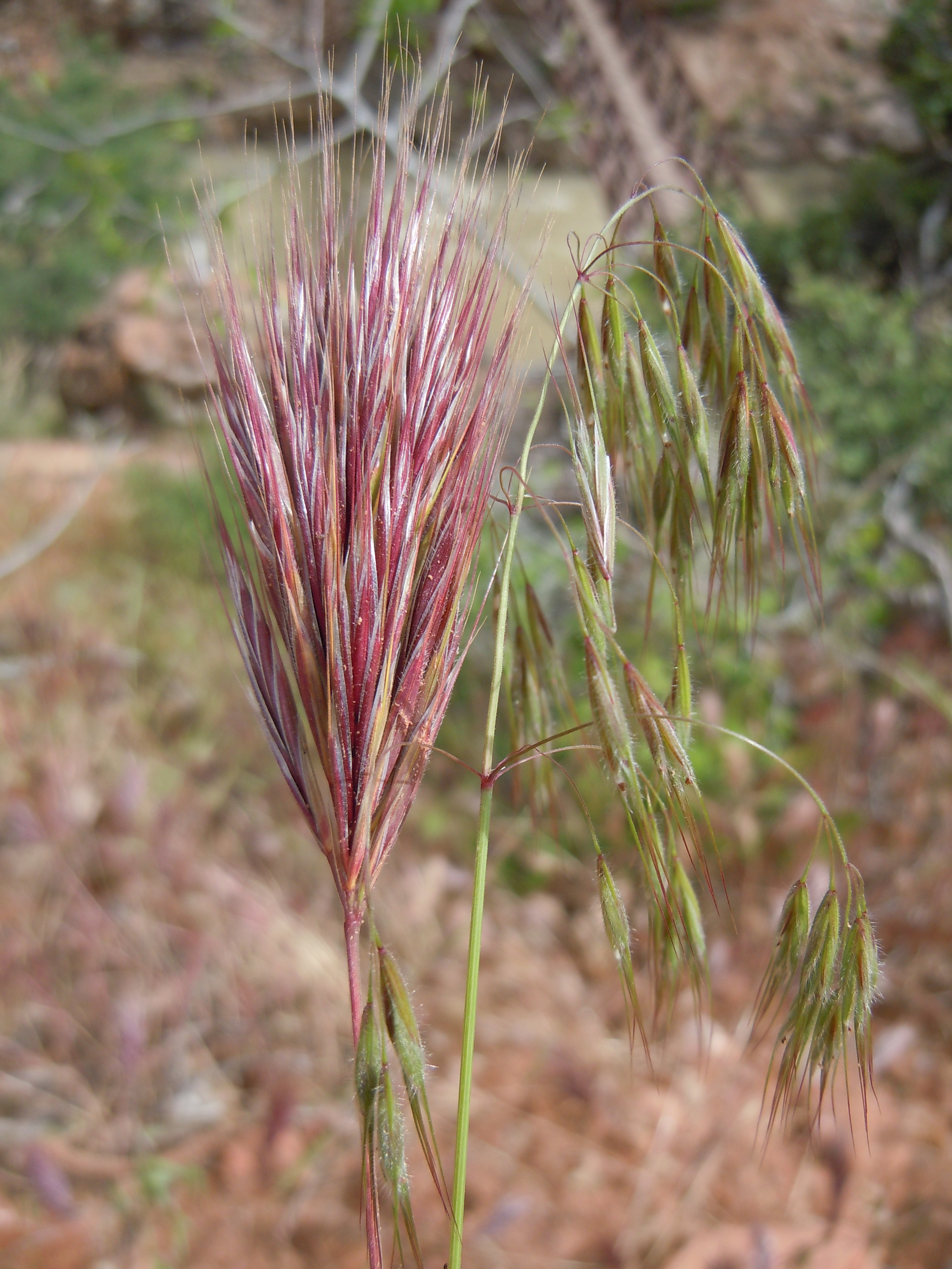 Annual bromegrasses of Bromus section Genea often coexists in open dry settings that are frequently or occasionally-severely disturbed.